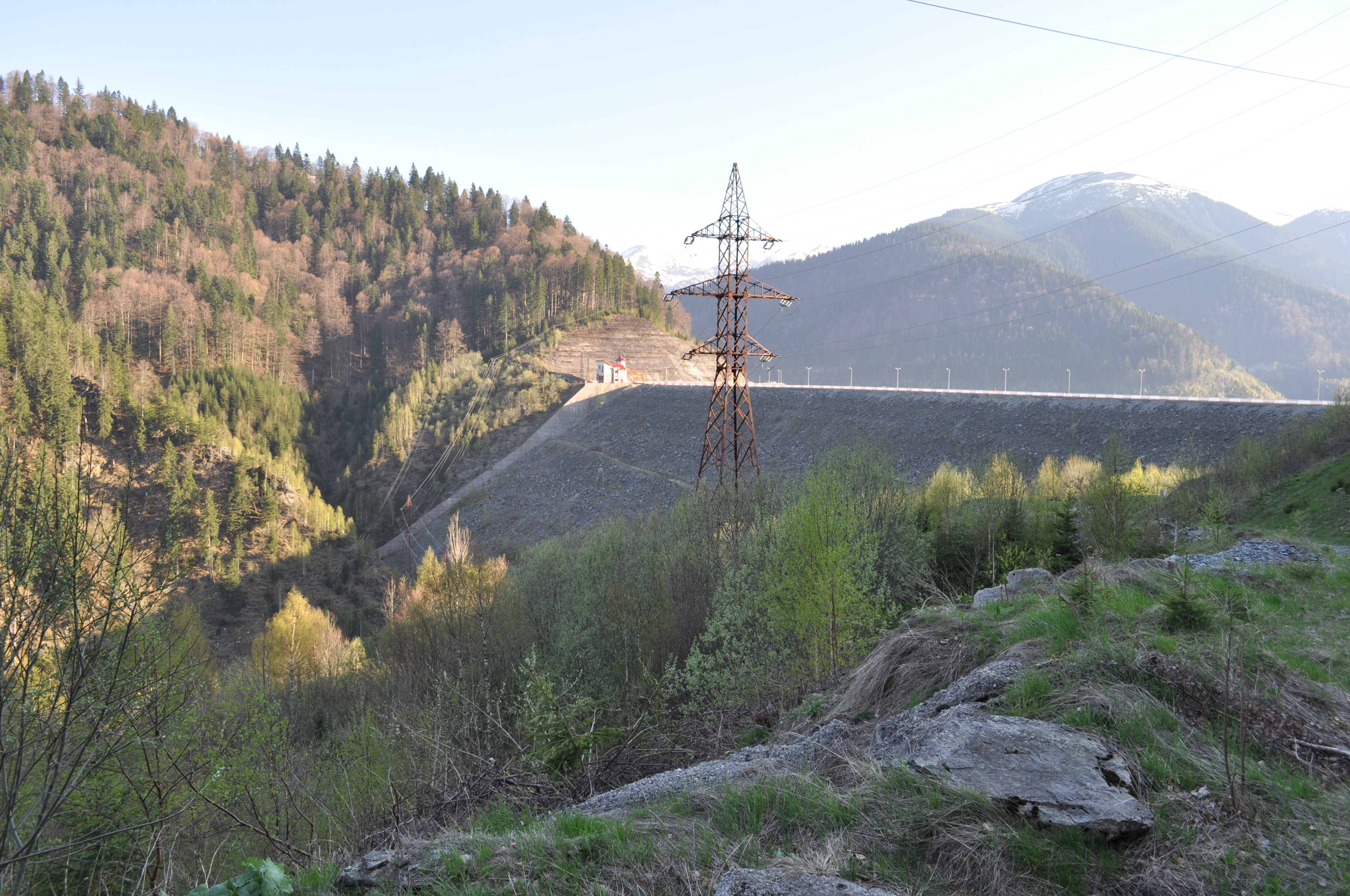 Gura Apelor dam and reservoir, Hunedoara counrty, Romania